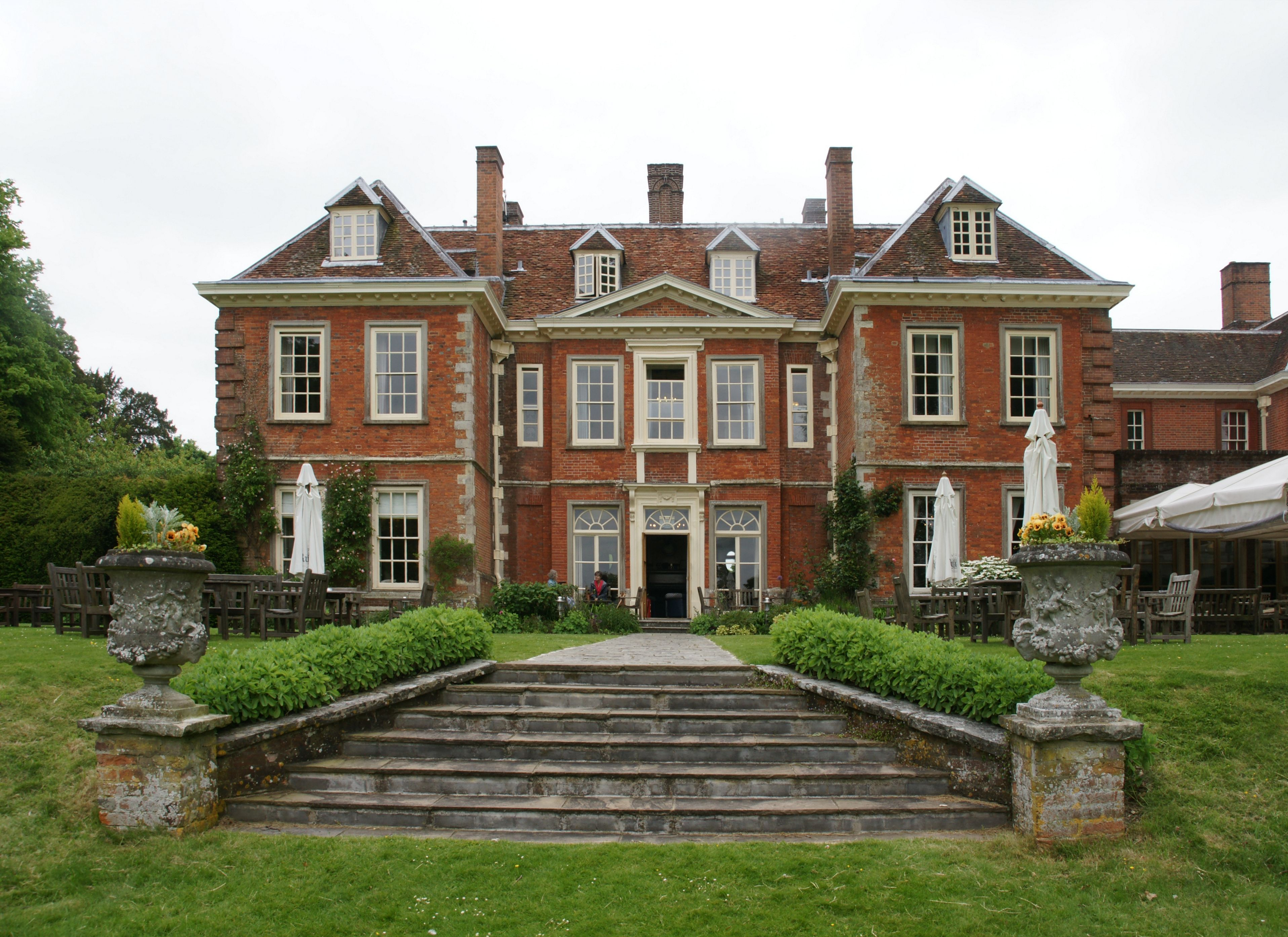 Lainston House eastern aspect